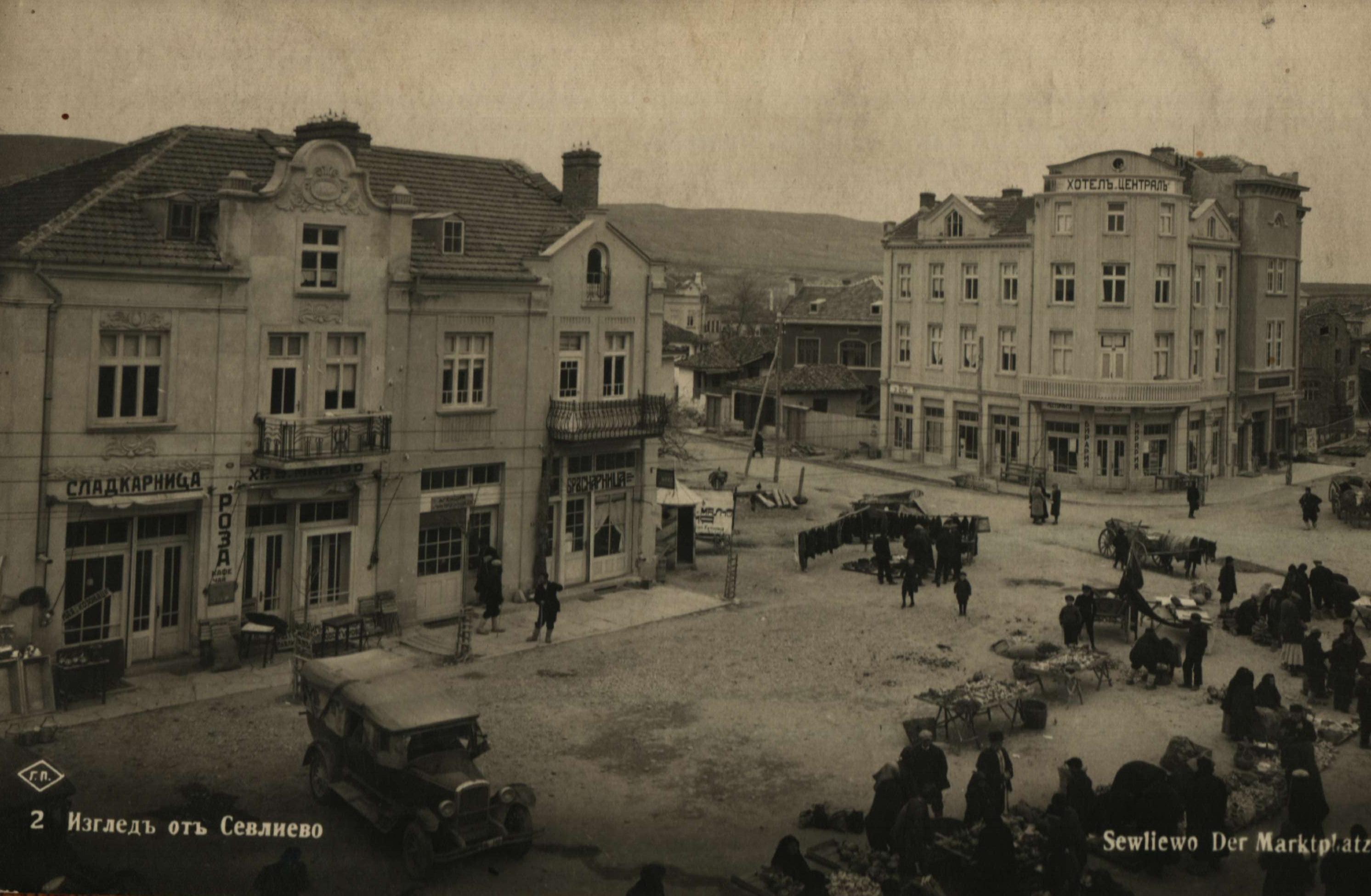 Sevlievo, Bulgaria